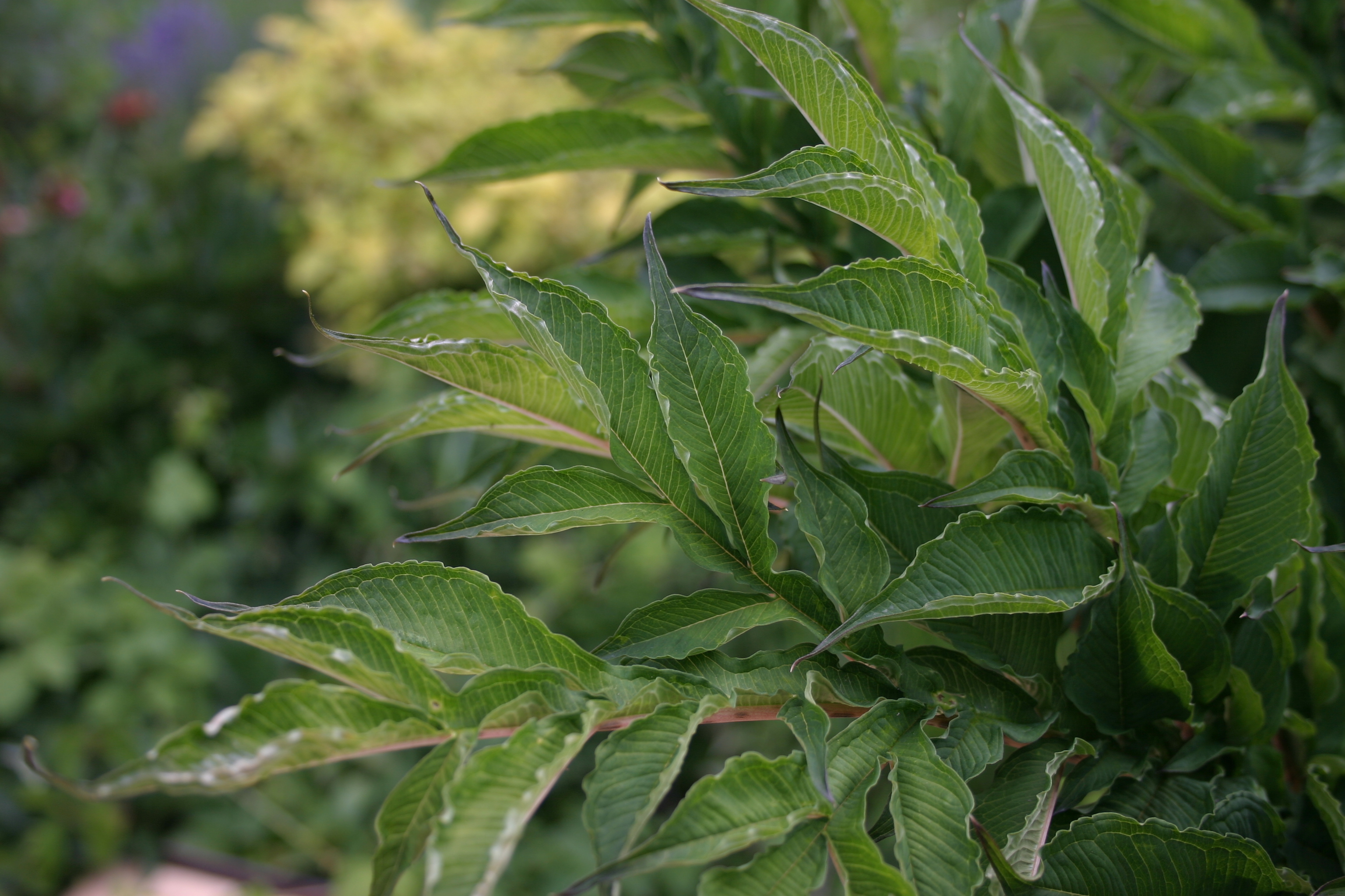 Leaves of Amorphophallus konjac from top, crown not fully unfolded